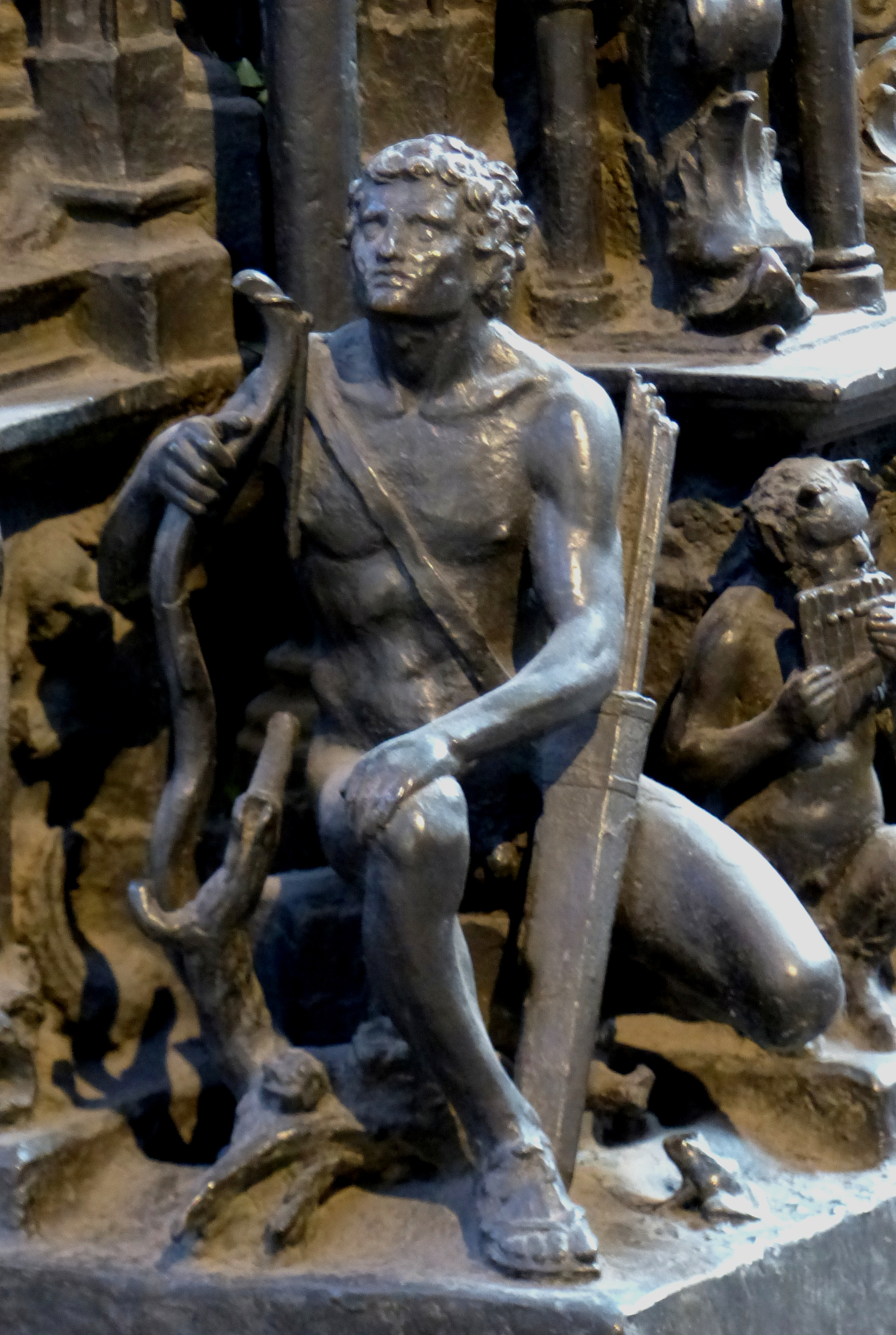 Nuremberg ( Middle Franconia ). Saint Sebald parish church: Brass grave monument ( 1519 ) for Saint Sebald by Peter Vischer the Elder - detail: Nimrod or Apollo at the base